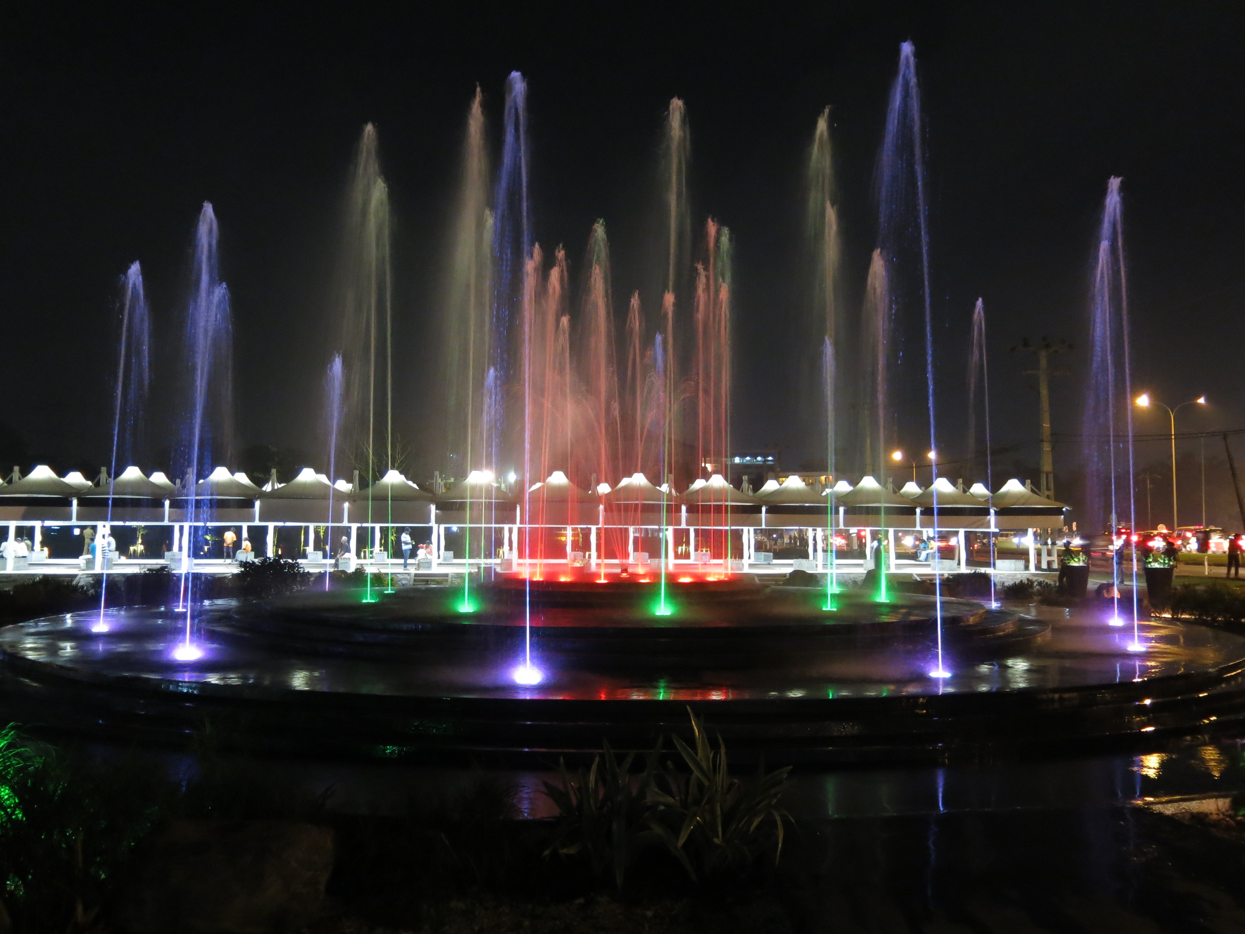 Diyatha Uyana Fountain at Night, Sri Lanka